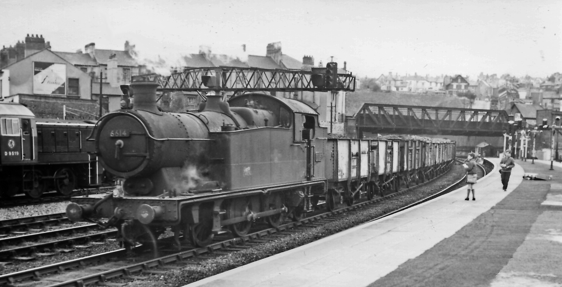 Up coal train passing Newport High Street station. View west, towards Cardiff, the Western Vallets etc.: ex-GW South Wales main line and branches. Here we have the Station and its lines recently rearranged, with the main lines straddling the island on the right, the Down Main nearest. The Class H mineral is headed by one of the ubiquitous (in South Wales) Collett '5600' class 0-6-2Ts, No. 6614 (built 10/27, withdrawn 6/65 - two months after the photograph). The young Spotters are probably more interested in the new BR/Paxman 650hp Type 1 (later Class 14) 0-6-0 Diesel-Hydraulic in the siding on the left: No. 9519 was built 10/64 but was withdrawn in 10/68! By April 1965 about half the busy traffic at Newport was already 'Diselised'. [Can anyone 'out there' recognise himself on the right?]